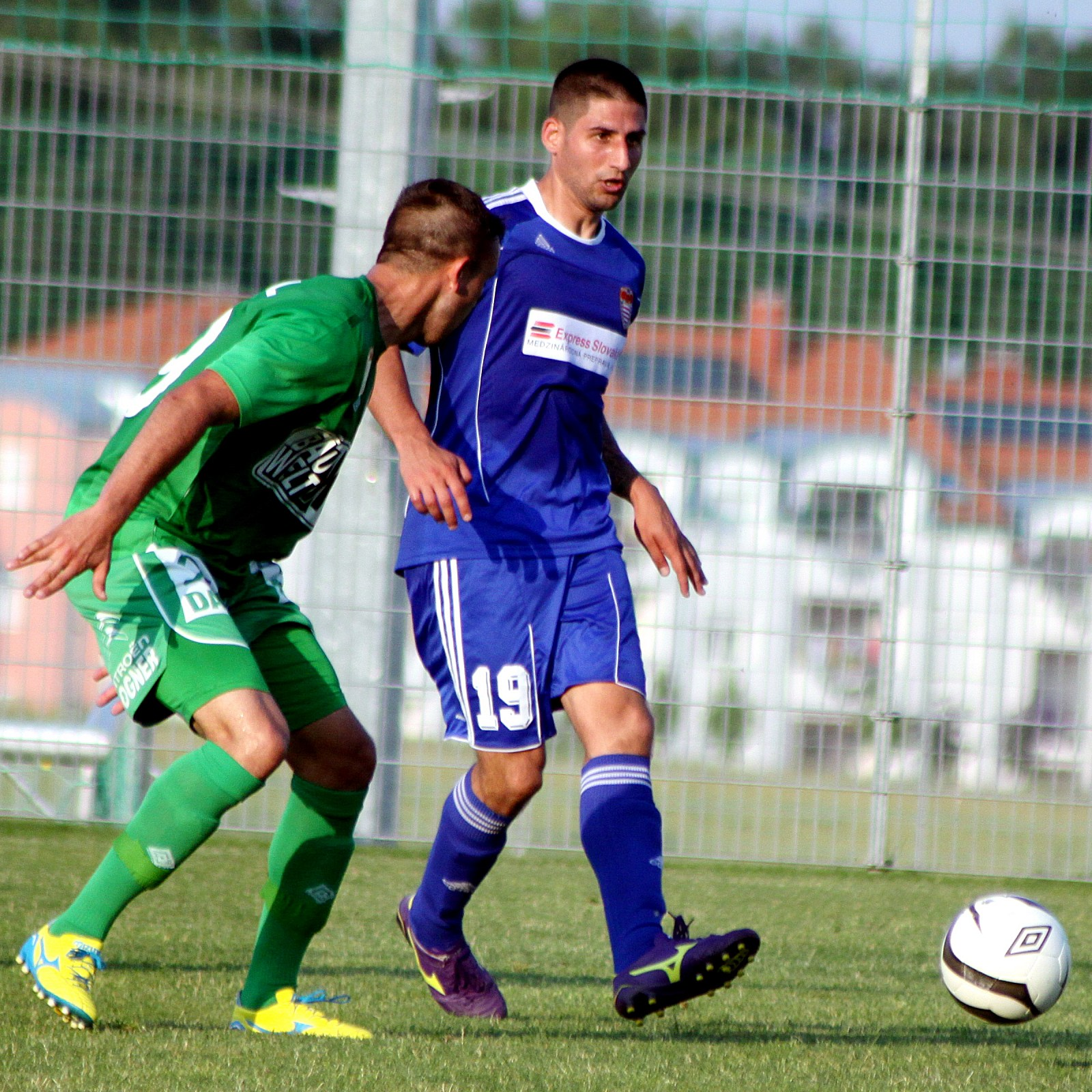 Friendly match SV Mattersburg vs FK Dukla Banská Bystrica (2:2) at 2013-06-21 in Mattersburg. – The photo shows Matúš Turňa (FK Dukla Banská Bystrica).